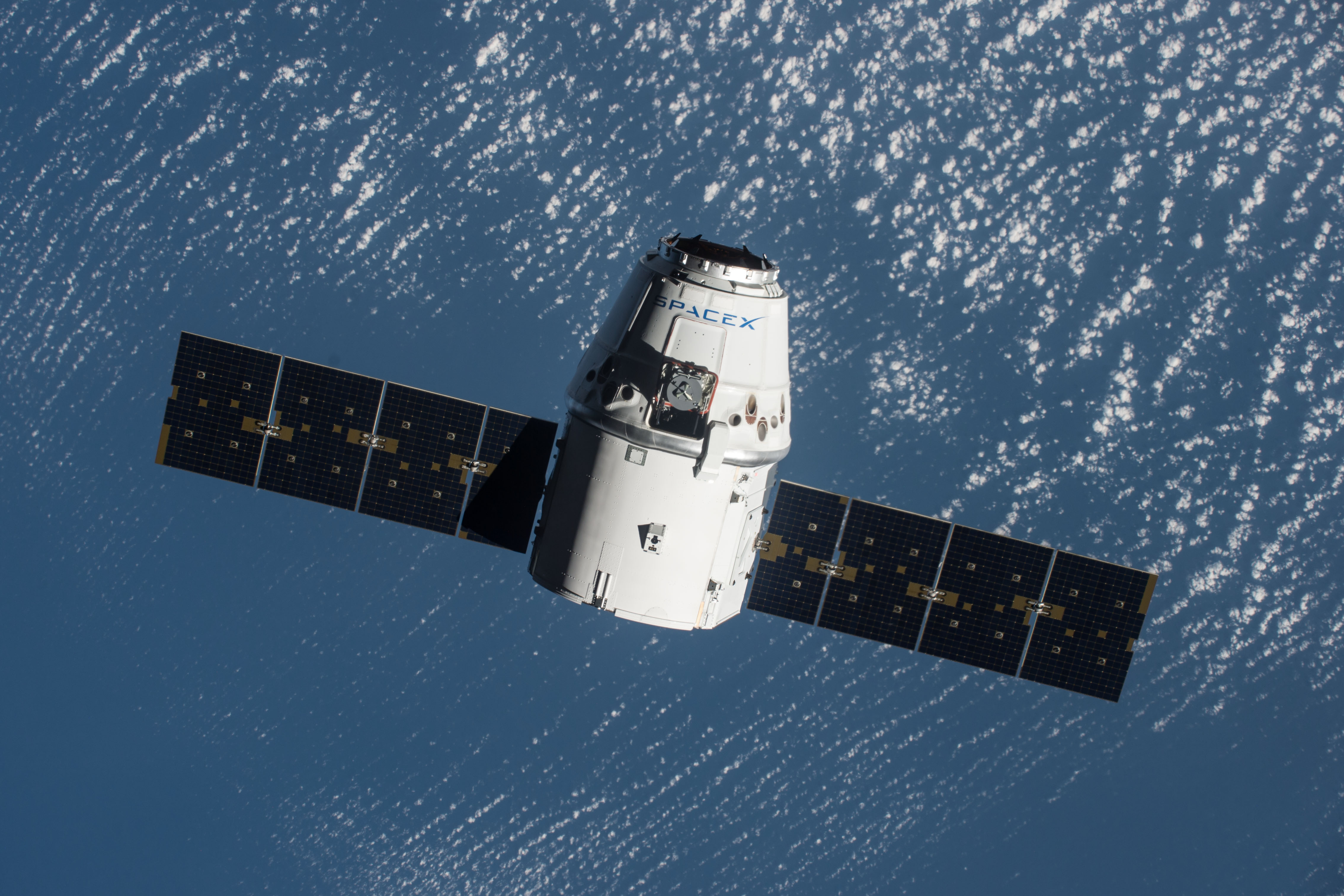 The SpaceX Dragon spacecraft arrives at the International Space Station with nearly 5,000 pounds of cargo. Instruments to perform the first-ever DNA sequencing in space, and the first international docking adapter for commercial crew spacecraft, are among the cargo of the SpaceX Commercial Resupply Services-9 (CRS-9) mission.